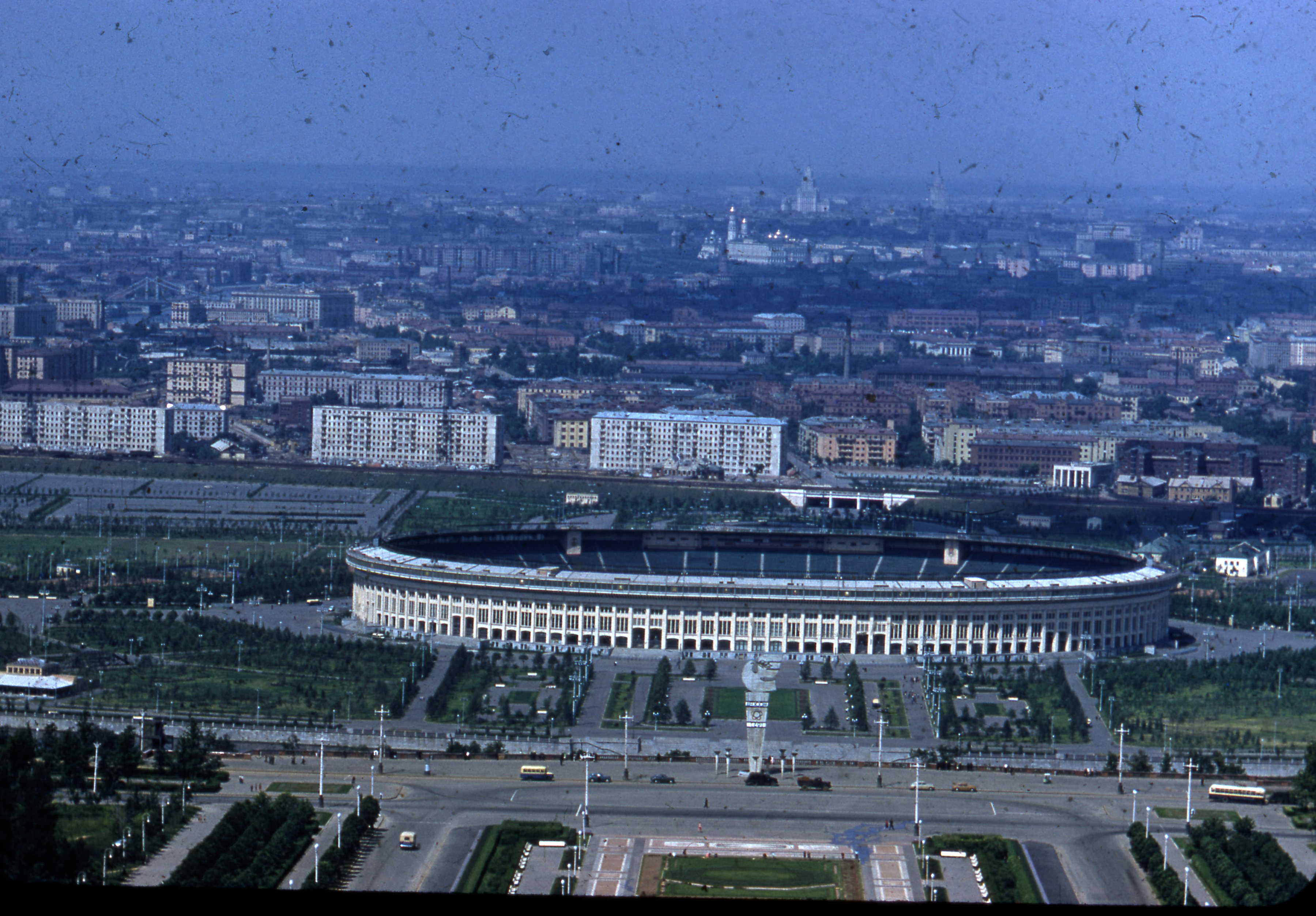 These images were taken by Thomas T. Hammond during his trip to the Soviet Union. These photos are unlabeled, so the places, time, and people are unknown. This specific photo features an aerial view of Moscow.